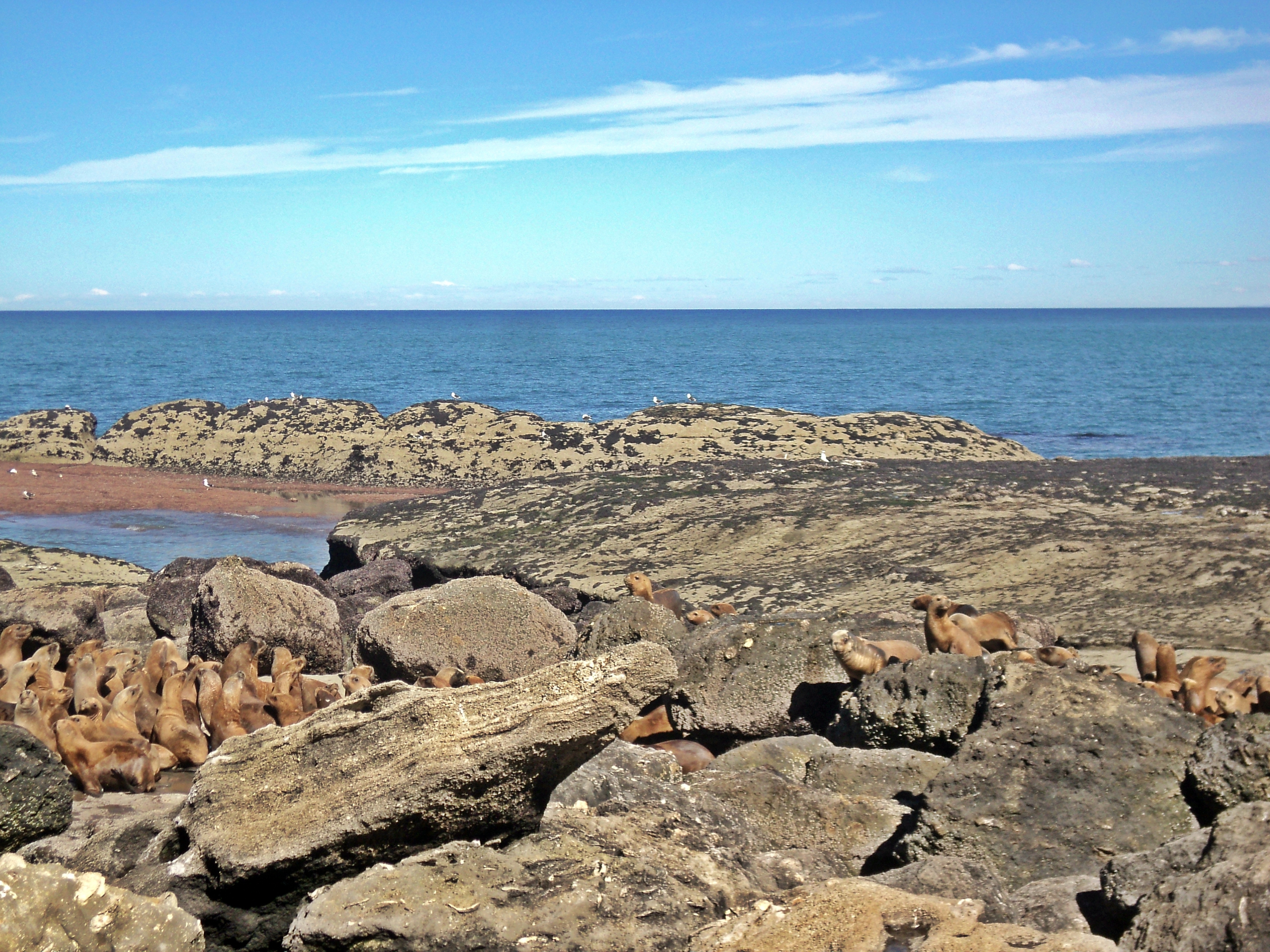 South American sea lions in Punta del Marqués. Rada Tilly, Argentina.